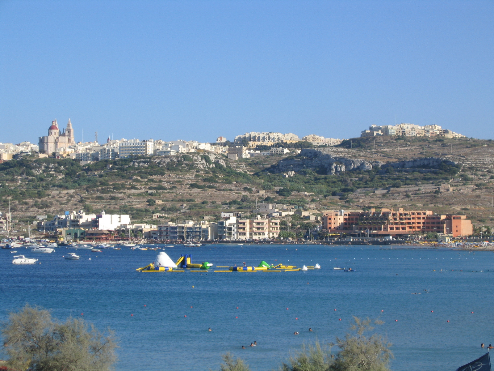 Mellieħa Bay, with the village and its church in the background